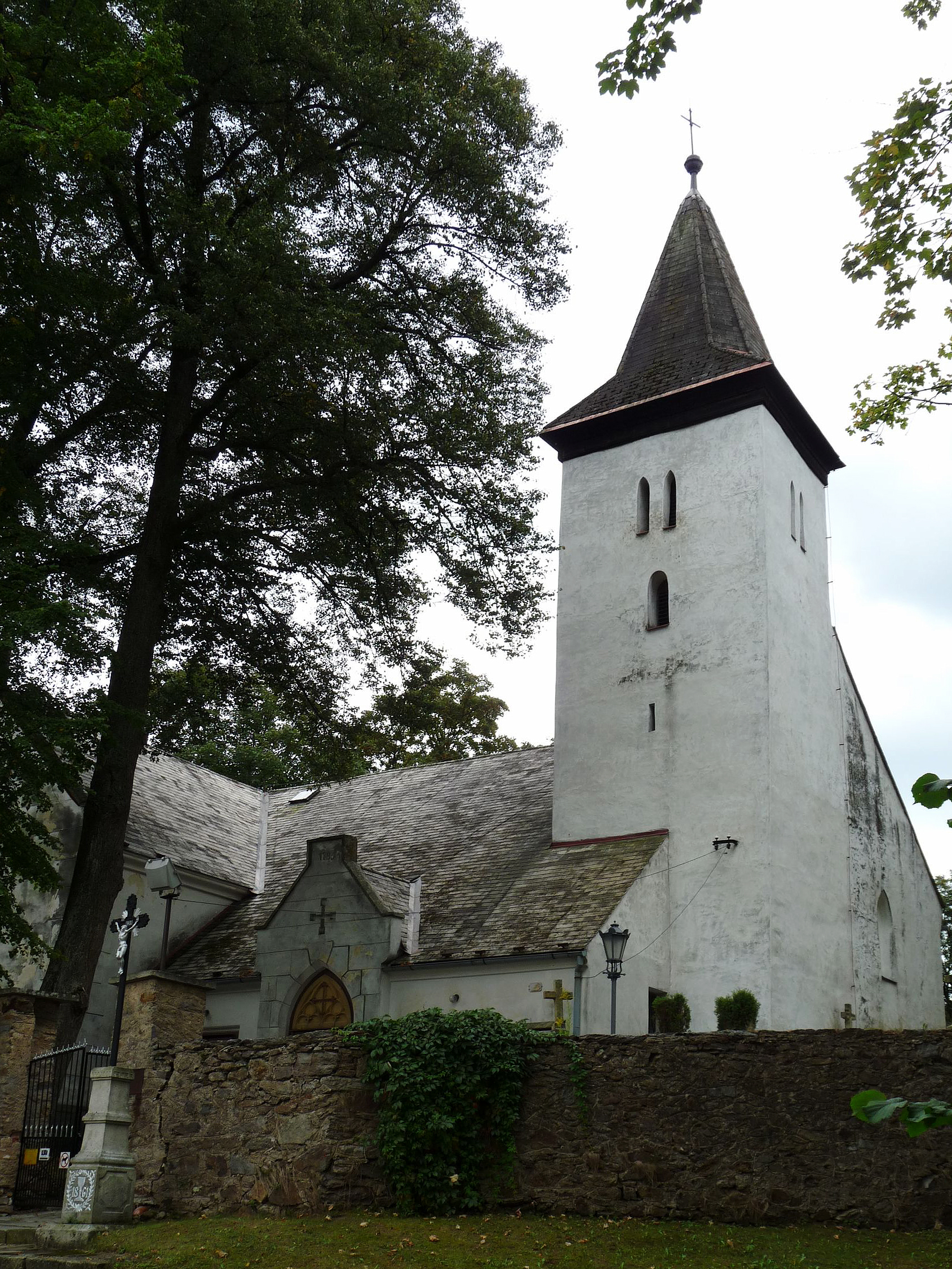 Saints Peter and Paul Church in the village of Zdíkovec in Prachatice District, Czech Republic, part of the municipality of Zdíkov. Česky: Kostel sv. Petra a Pavla ve vsi Zdíkovec v okrese Prachatice, části obce Zdíkov.